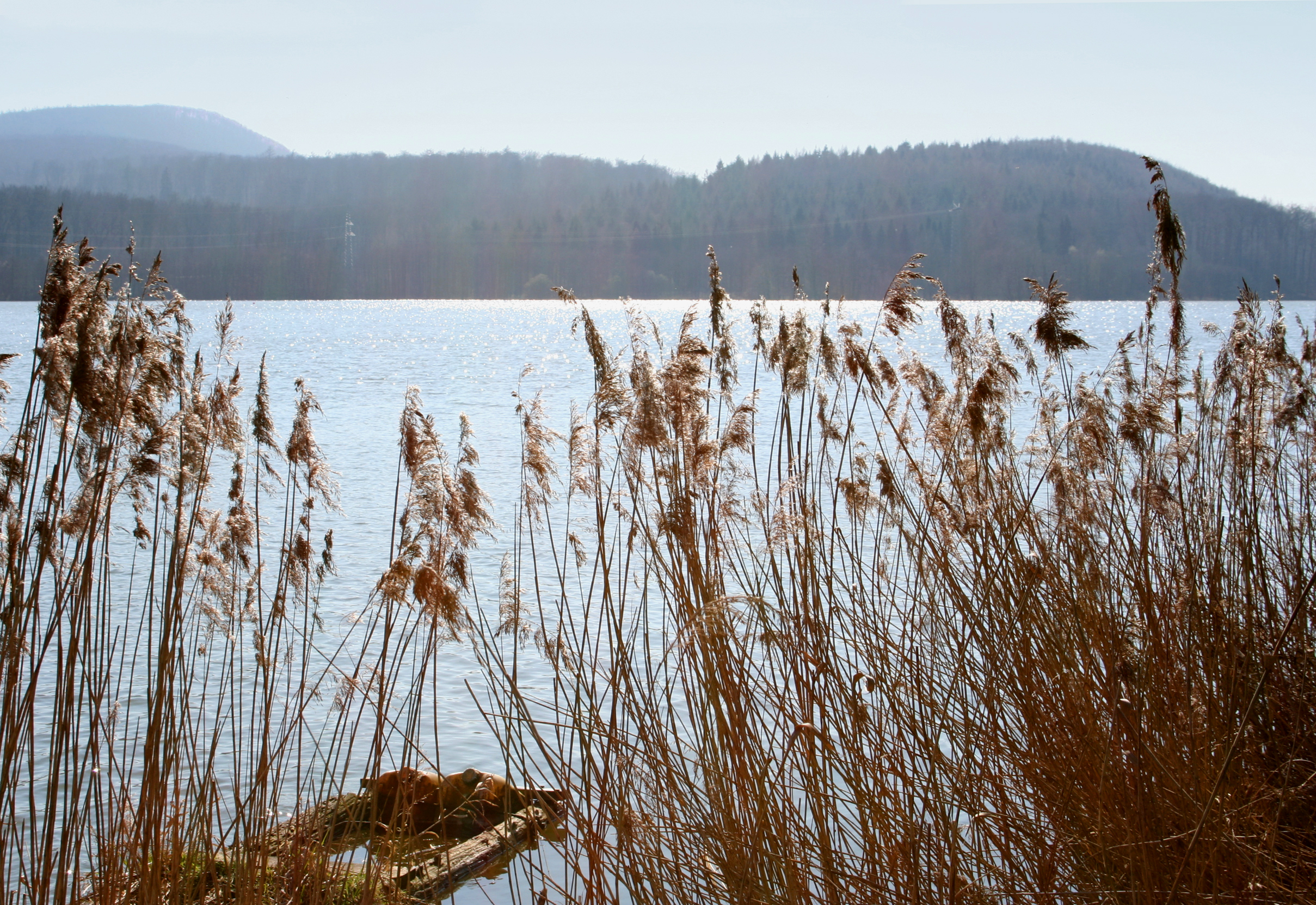 Emmerstausee ("Schiedersee") in Lippe, Germany.